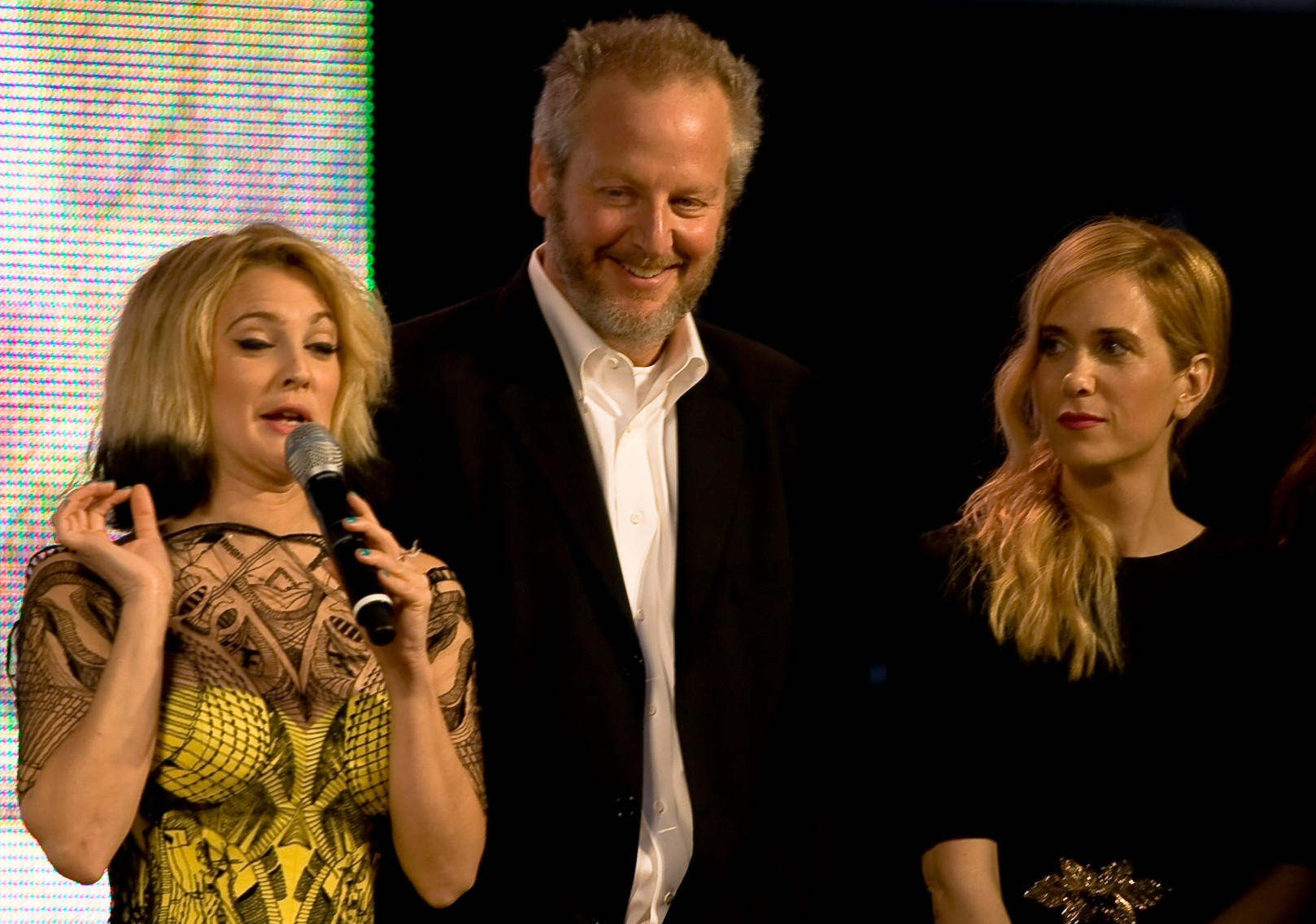 At the "Whip It" roller derby presentation at Yonge-Dundas Square, Toronto International Film Festival, 2009.